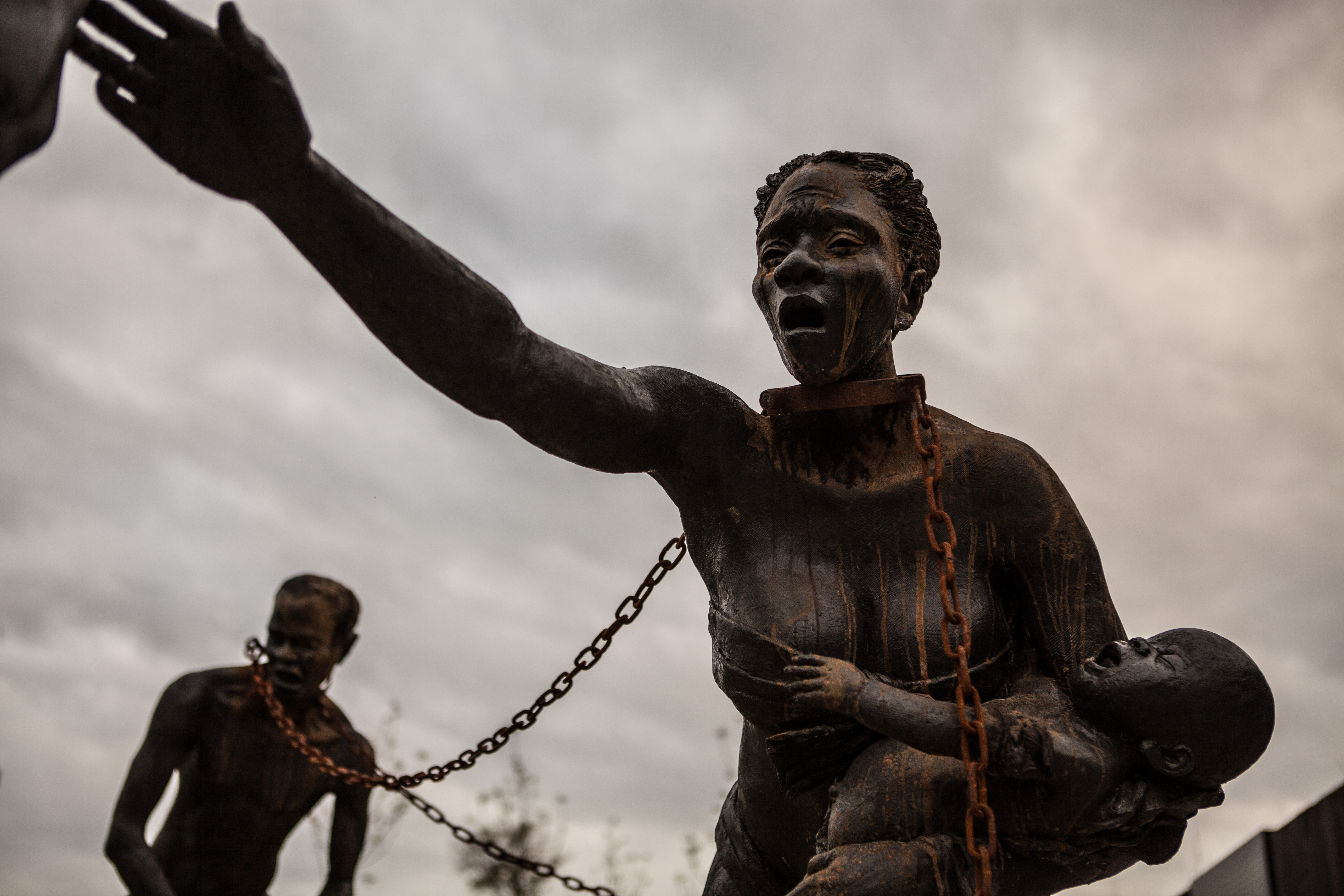 Racial injustice in America has roots in enslavement. This piece is part of The National Memorial for Peace and Justice, opening April 26th. America's history of racial terror must be acknowledged and remembered. Nkyinkim Installation by West African artist Kwame Akoto-Bamfo.